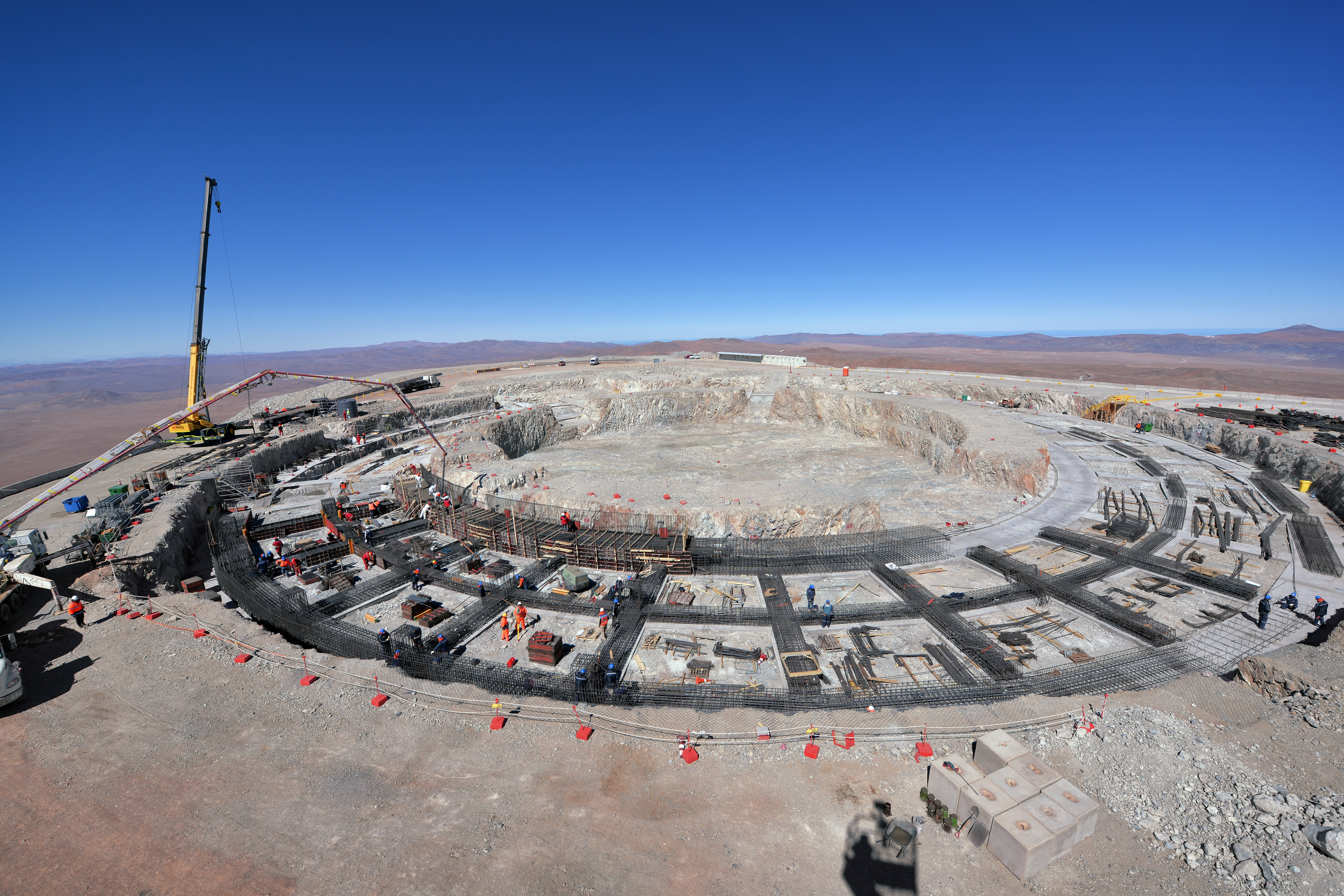 Construction is now underway of the foundation of ESO’s Extremely Large Telescope (ELT) in the remote Chilean Atacama Desert.